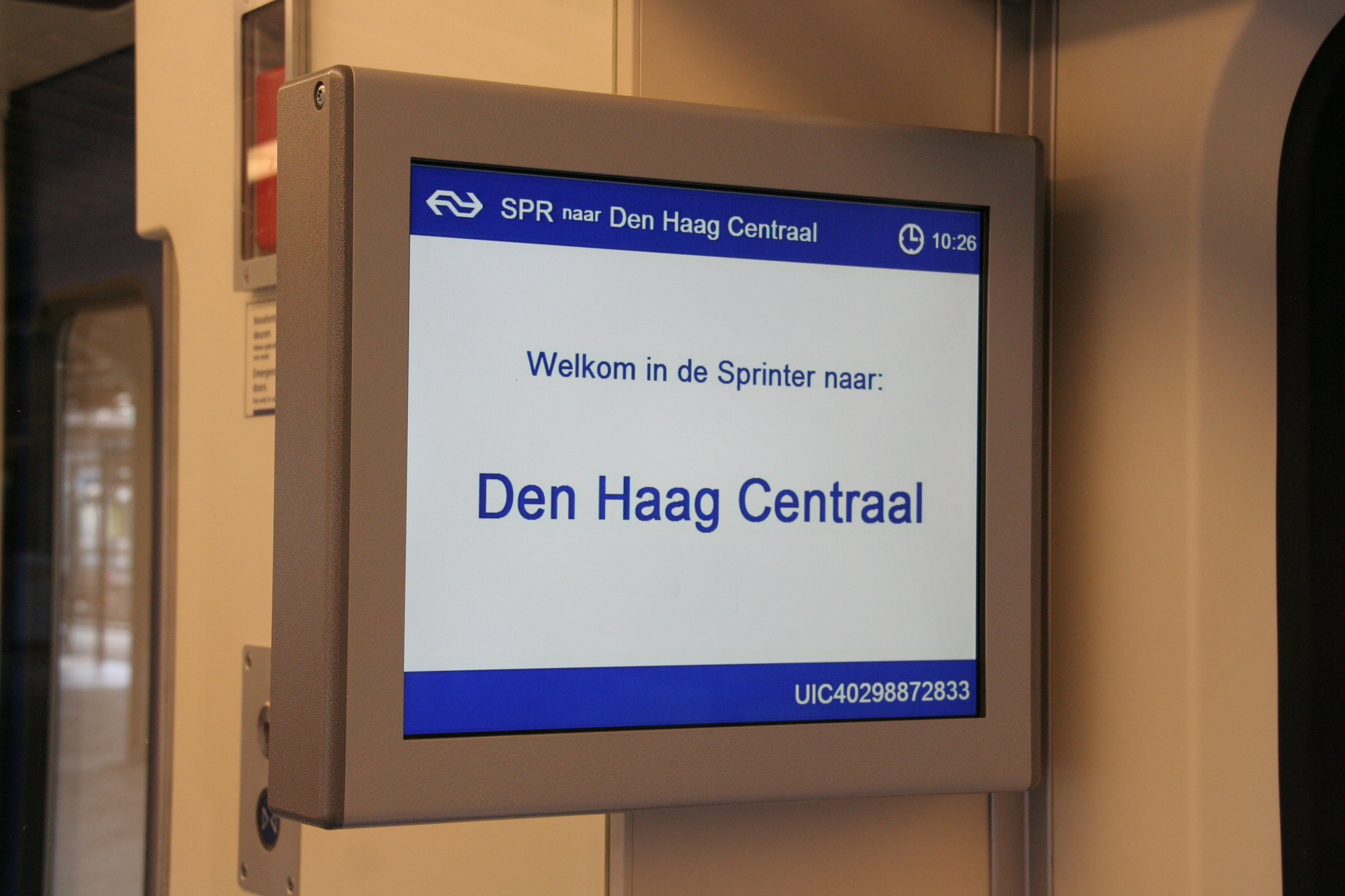 Display in SLT